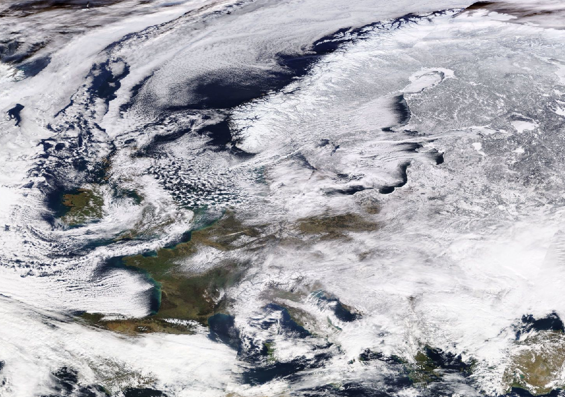 Satellite view showing Europe partially covered in snow under the influence of the anticyclonic cold wave named Hartmut or the "Beast from the East" on 27 February 2018